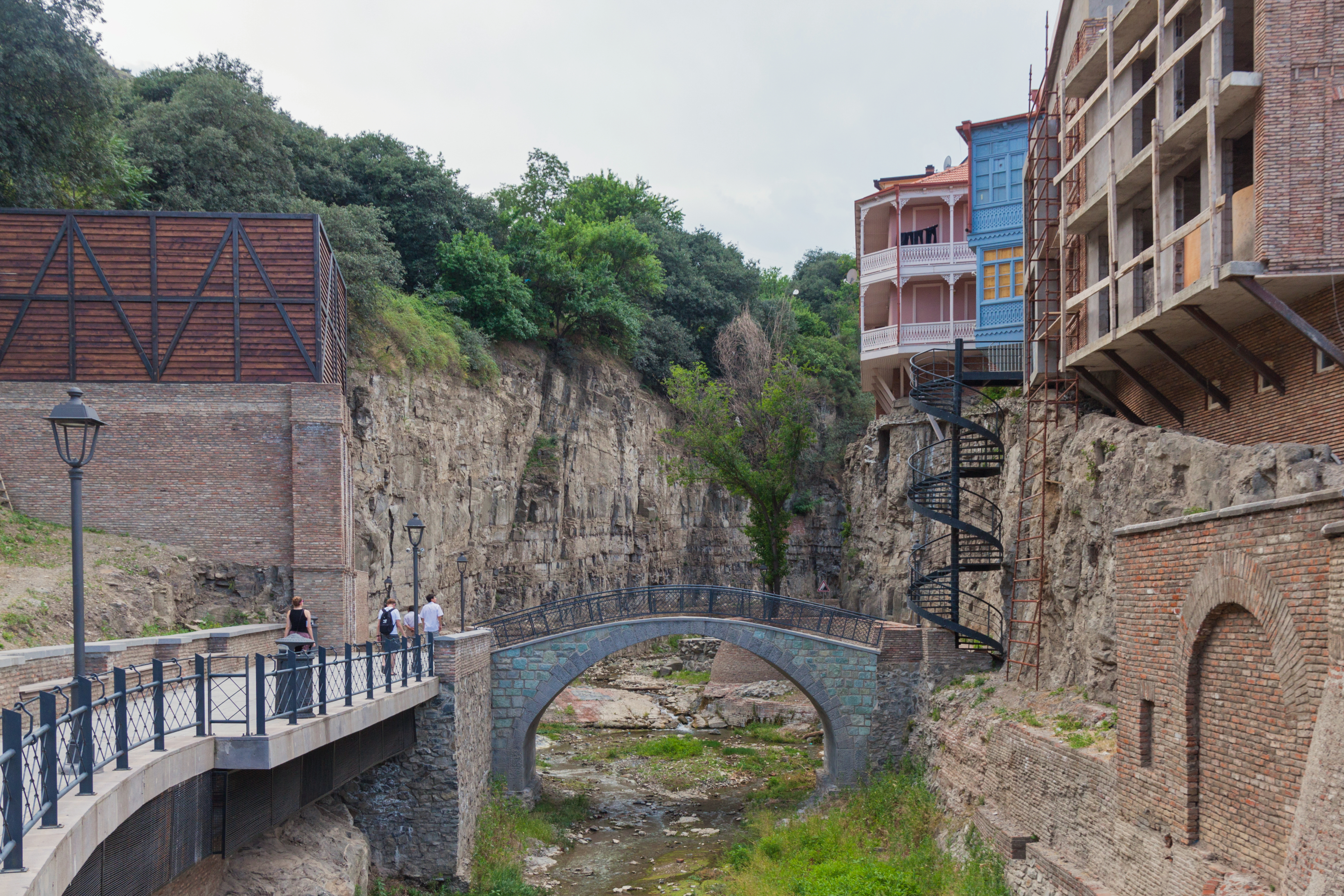 Sulfur baths in Abanotubani. Tbilisi, Georgia.